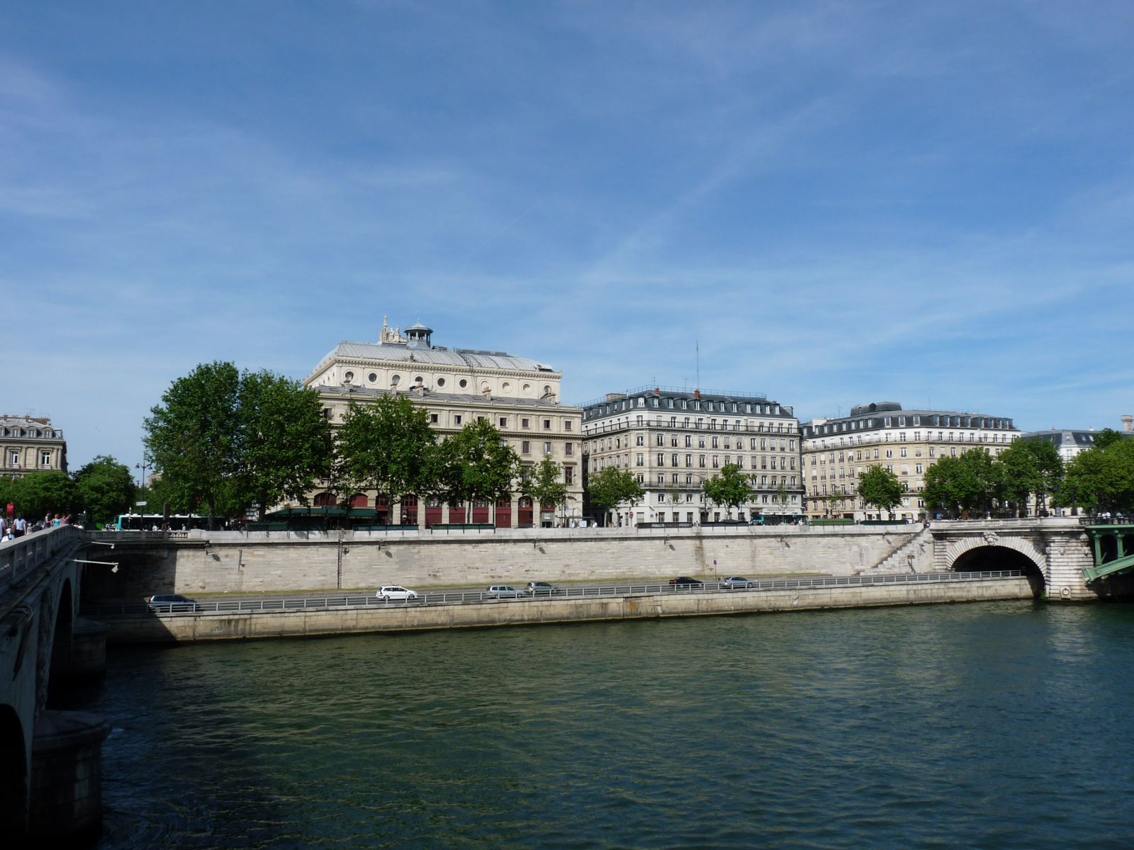 Quai de Gesvres in Paris between the pont au Change and the pont Notre Dame.